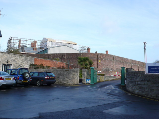 Dorchester Prison A view of the main outside gates of the prison. The security gates cannot be seen and are built into the main wall. The roof is currently being renewed.